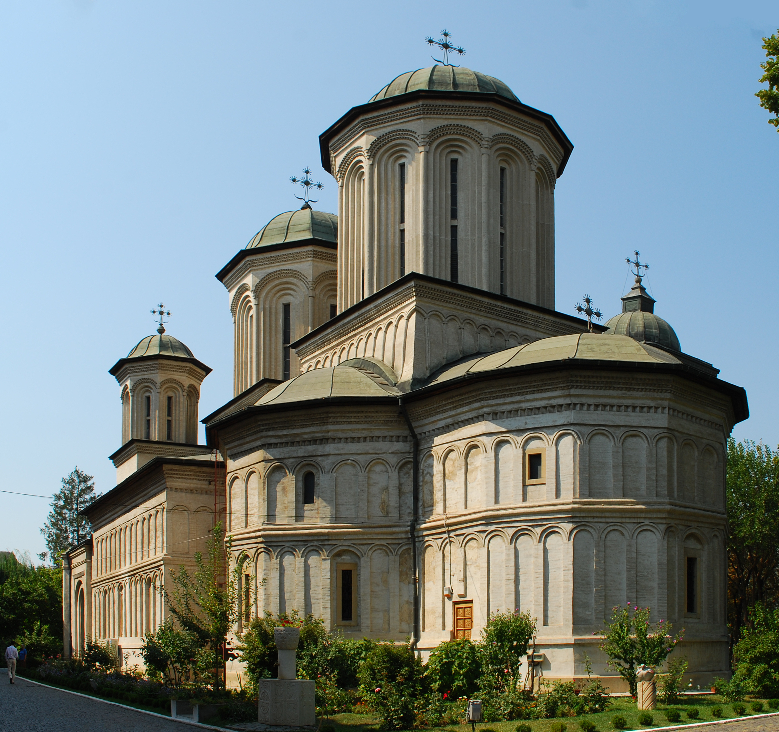 Church of the Radu Vodă monastery in Bucharest, RomaniaRomână: Biserica „Sf. Troiţă“ - mănăstirea Radu Vodă, Bucureşti, România